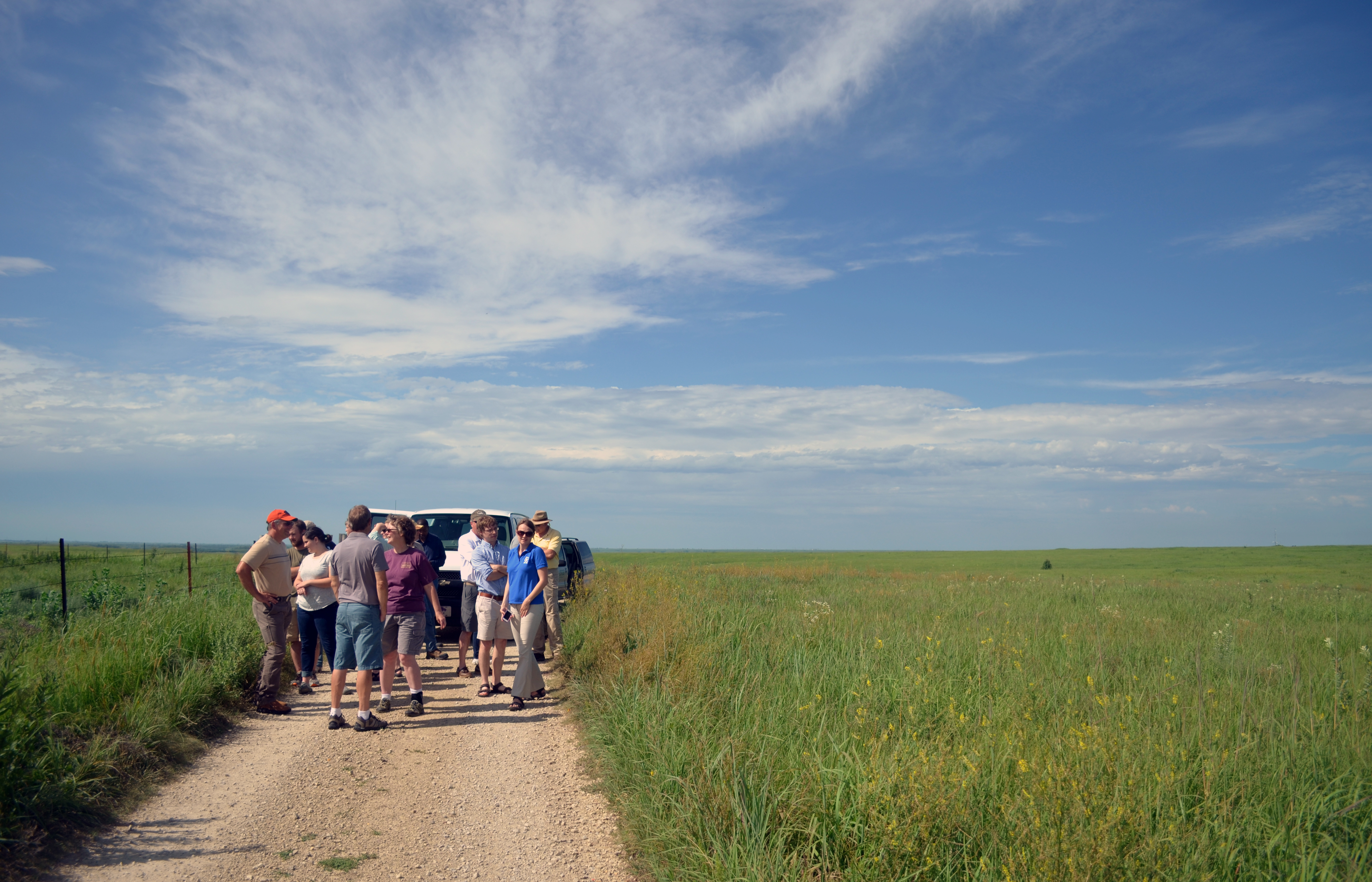 Photo by Joanna Gilkeson/USFWS